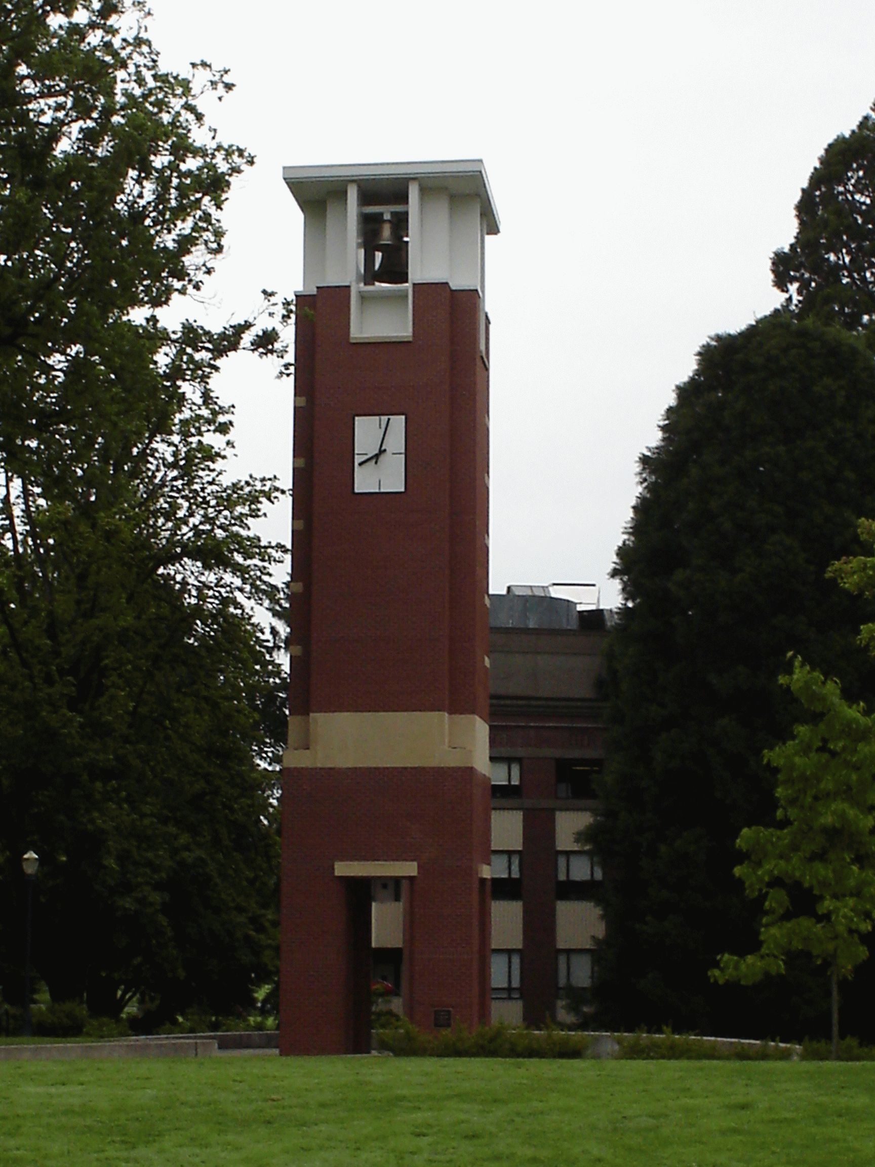 Bell tower - Beta Campanile at Oregon State University.